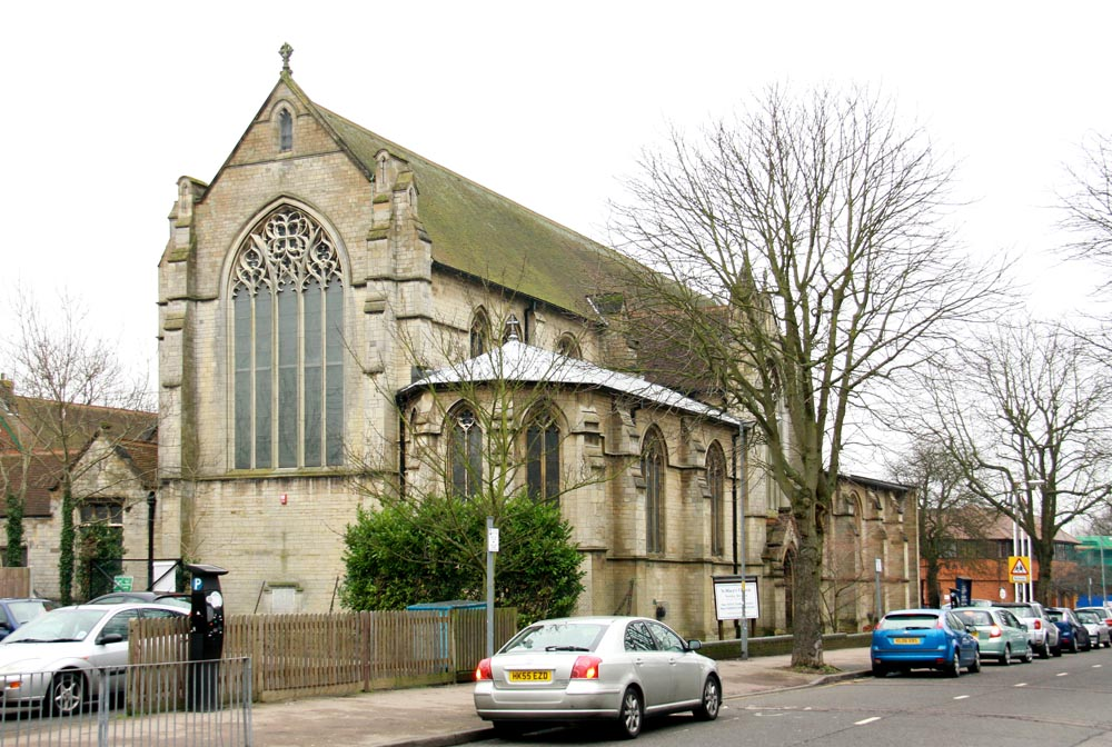 St Mary & All Saints, Potters Bar Architect - John Samuel Alder